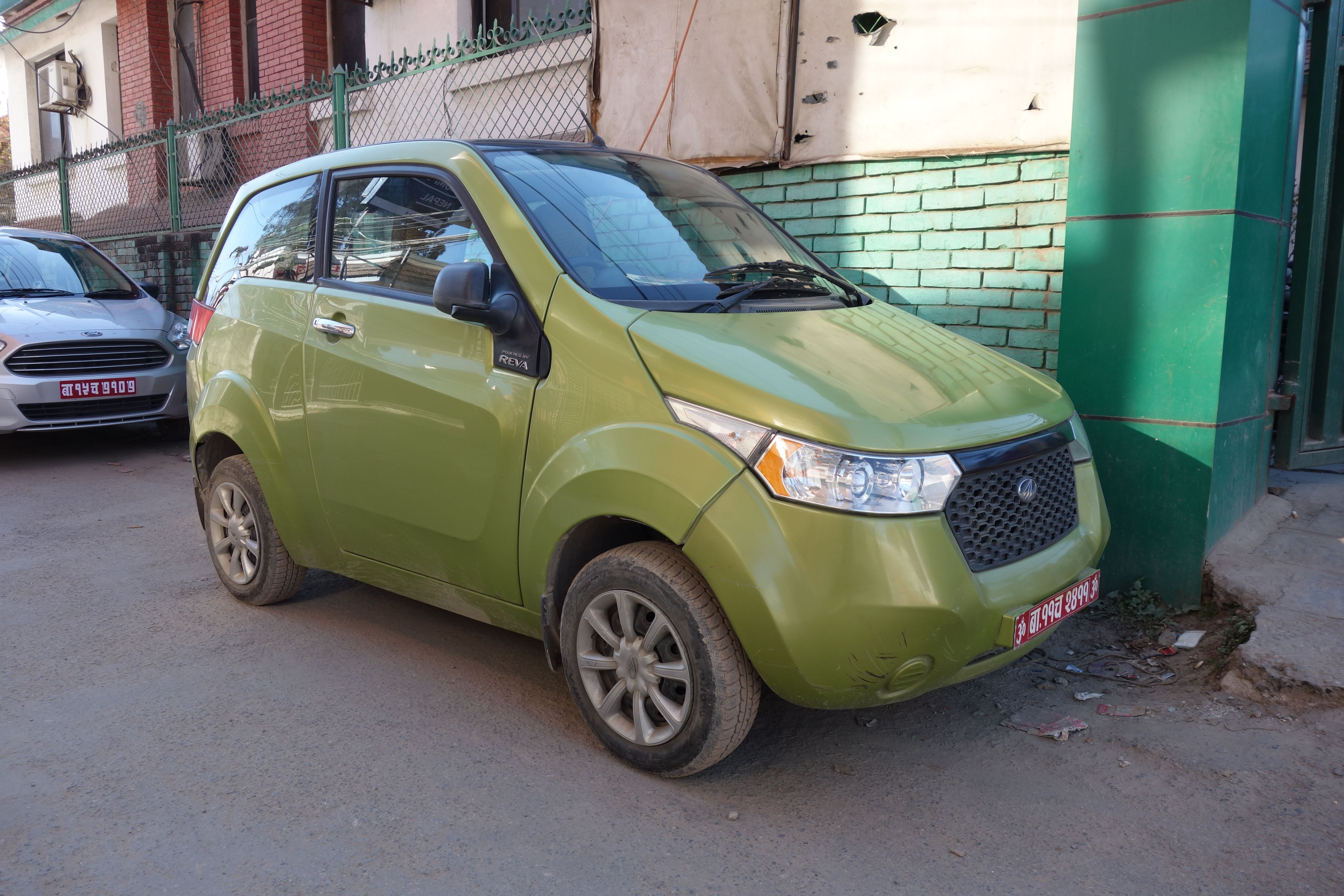 A Mahindra e2o in Kathmandu.